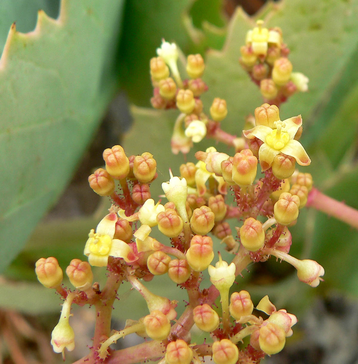 Photo of Cyphostemma juttae at the University of California Botanical Garden